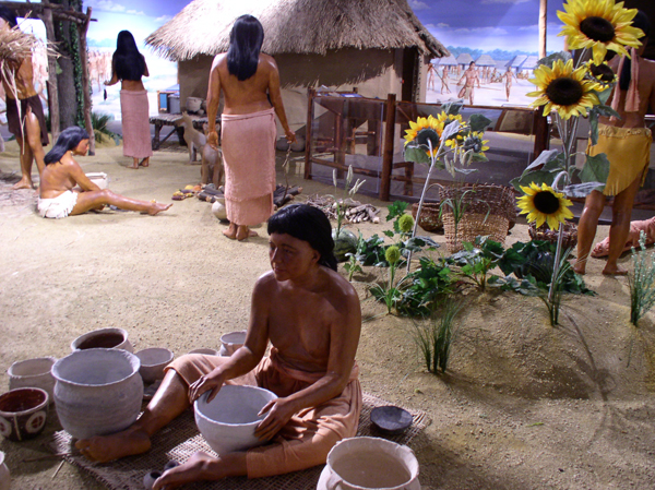 A diorama from the Angel Mounds site in Evansville, Indiana, a Mississippian culture settlement.